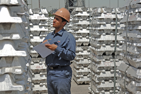 Aluminium Bahrain (Alba) Standard Ingots